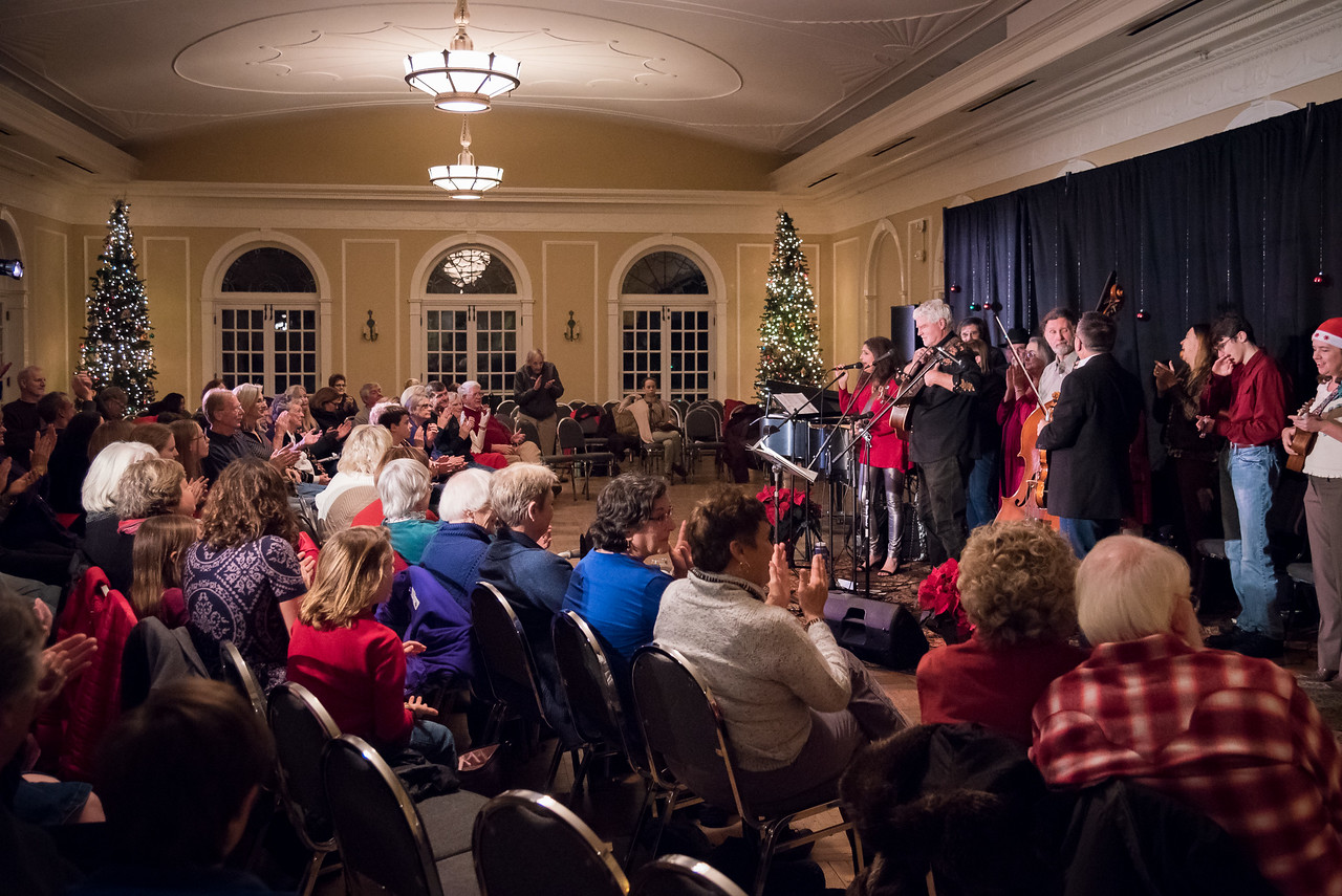 A holiday concert takes place at the Oxford Community Arts Center in Dec. 2017